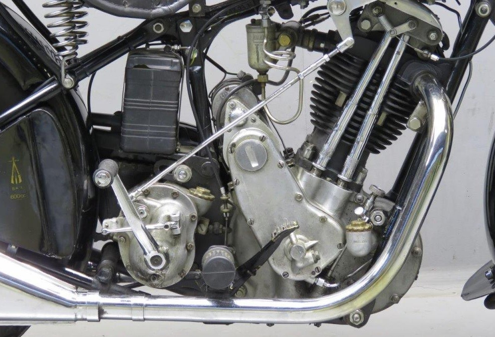 1933 BSA M33-11 600cc-motorcycle engine